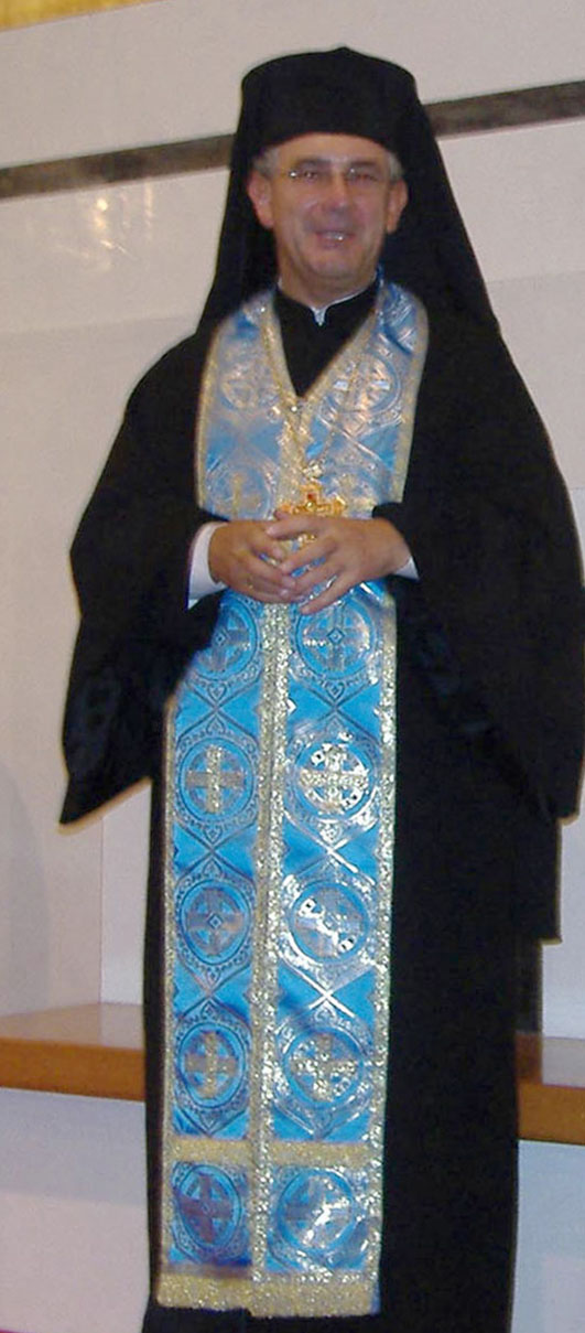 Melkite Archimandrite Father Emiliano redaelli